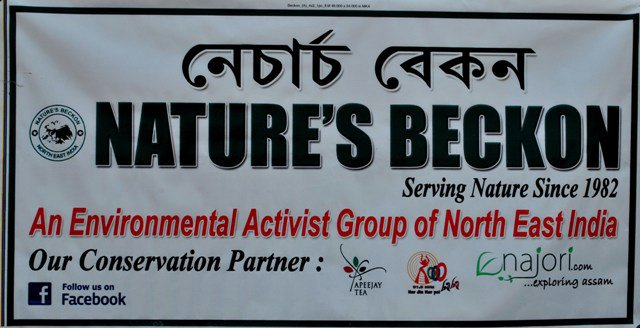 A poster of Nature's Beckon